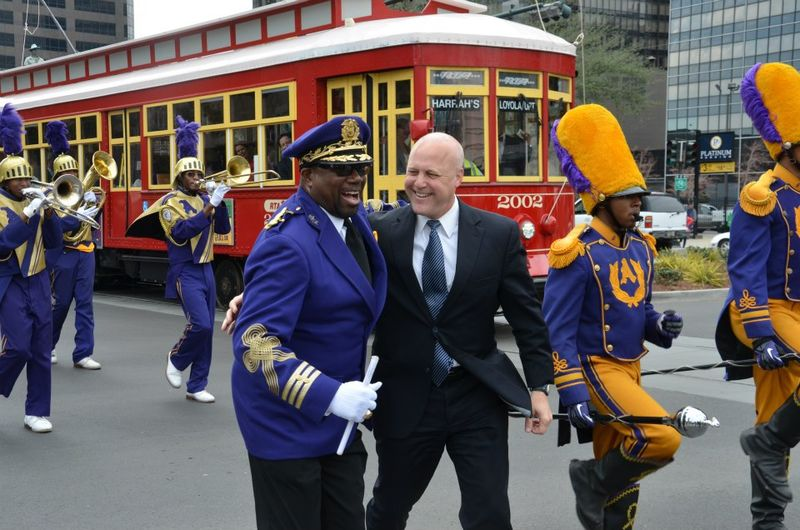 New Orleans Mayor Mitch Landrieu celebrates with the St. Augustine Purple Knights Marching Band, at opening celebrations for the new Loyola Avenue streetcar line.